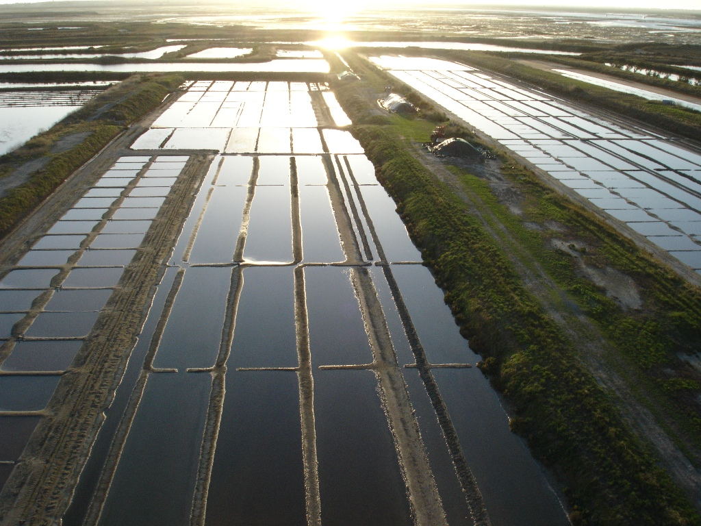 Aerial view of salt evaporation ponds in Ile de Ré, France.